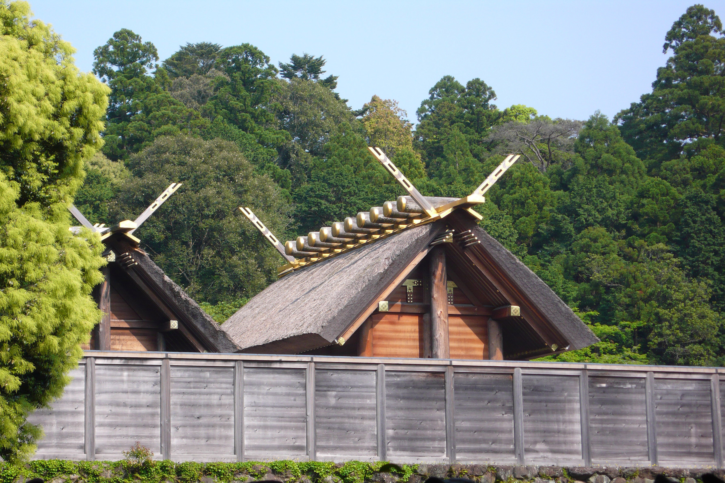 Kōtai-jingū (Naiku) at Ise city, Mie prefecture, Japan.